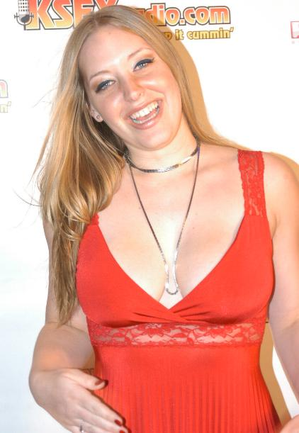 Kiara Marie at Listeners Choice Awards, December 2 2006